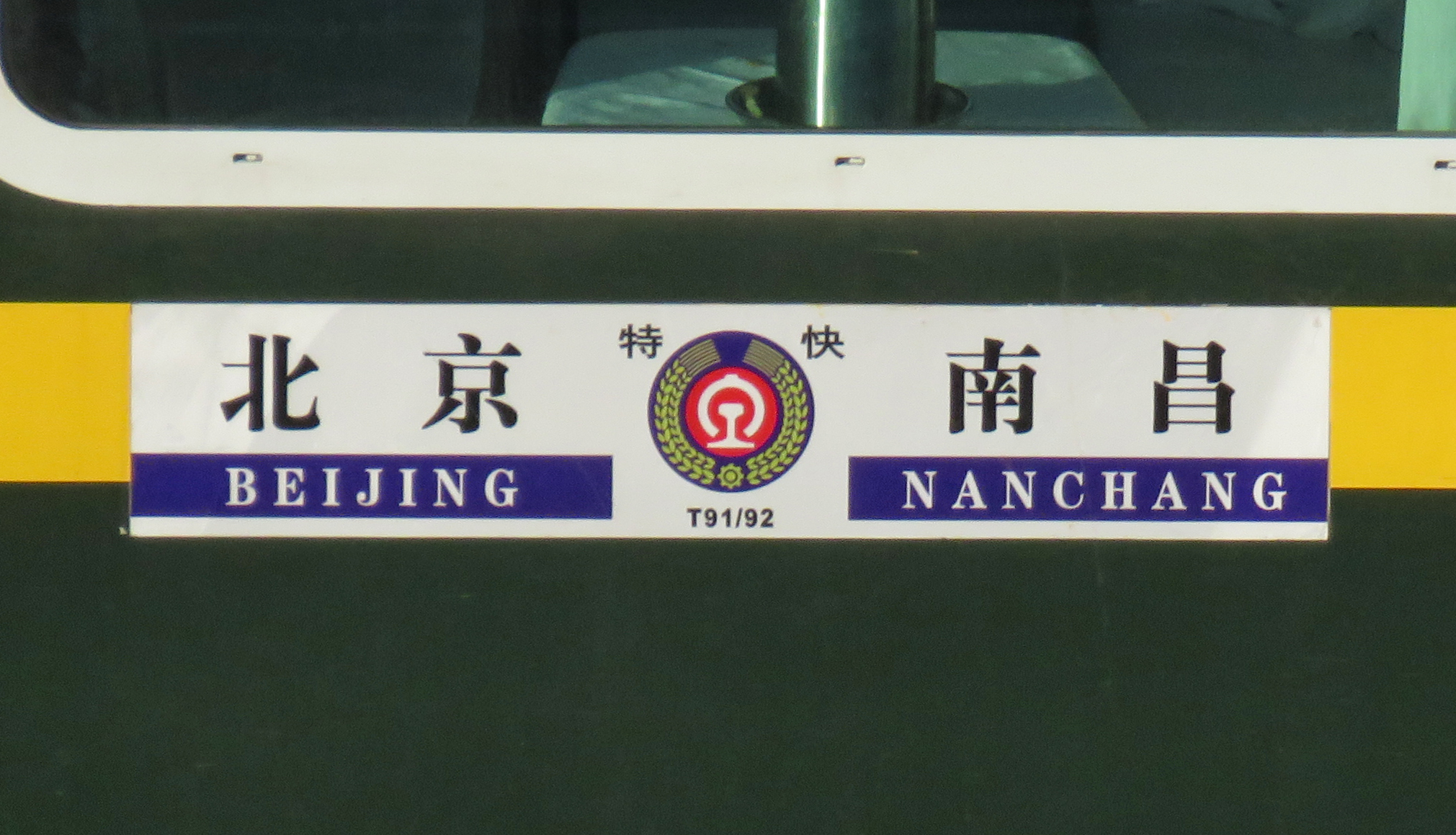 It's a game on Beijing-Fuzhou trains between CR Beijing and CR Nanchang...